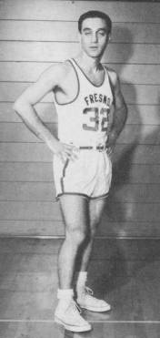 1954-55 yearbook photo of Jerry Tarkanian, senior guard on the Fresno State College men's basketball team.